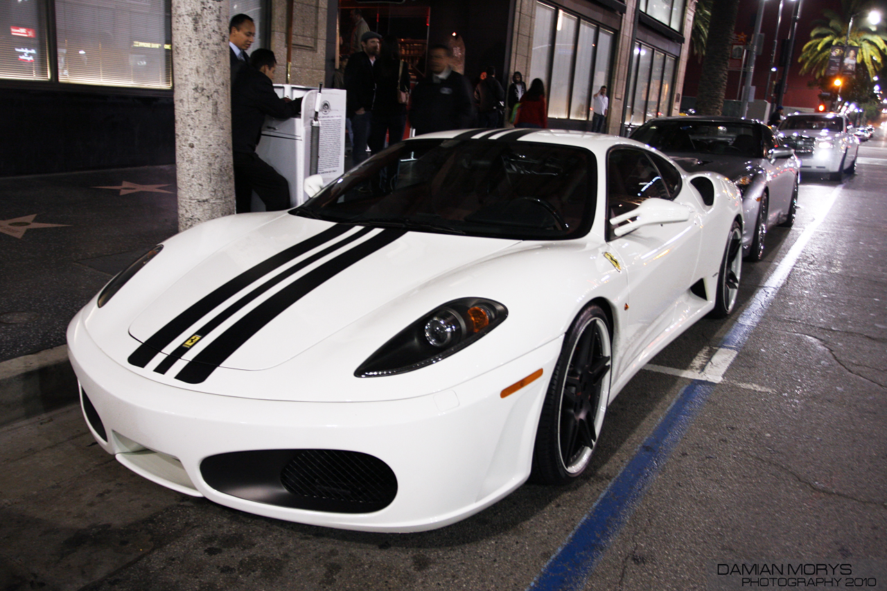 Insane F430 parked outside of Katsuya in Hollywood. Definitely one of the crazier cars I saw in LA.